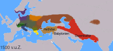 part of the series 5500, 4500, 3500, 2500, 1500, 0500 BP; goto Image_talk:IE5500BP.png.